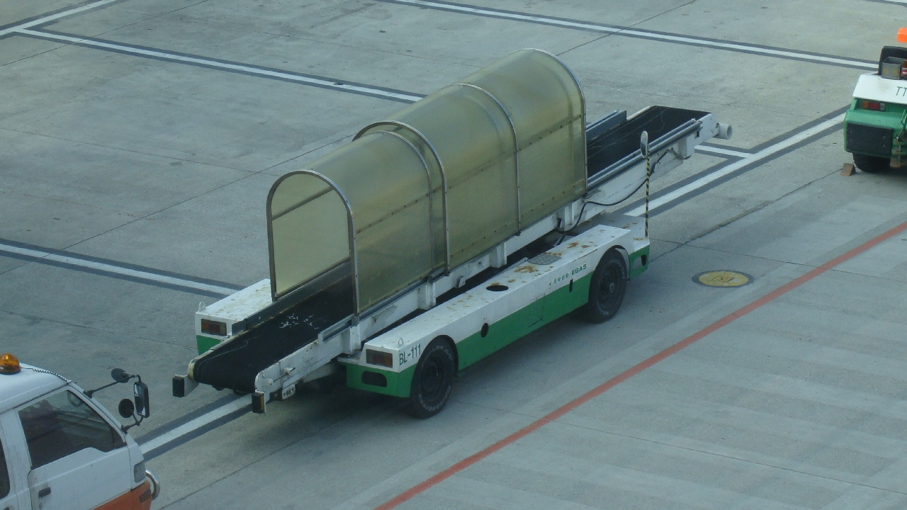 Evergreen Airline Services Corp. self-propelled baggage carousel BL-111.